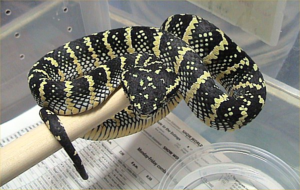 Photographer: LA Dawson Animals courtesy of Designer Atrox.